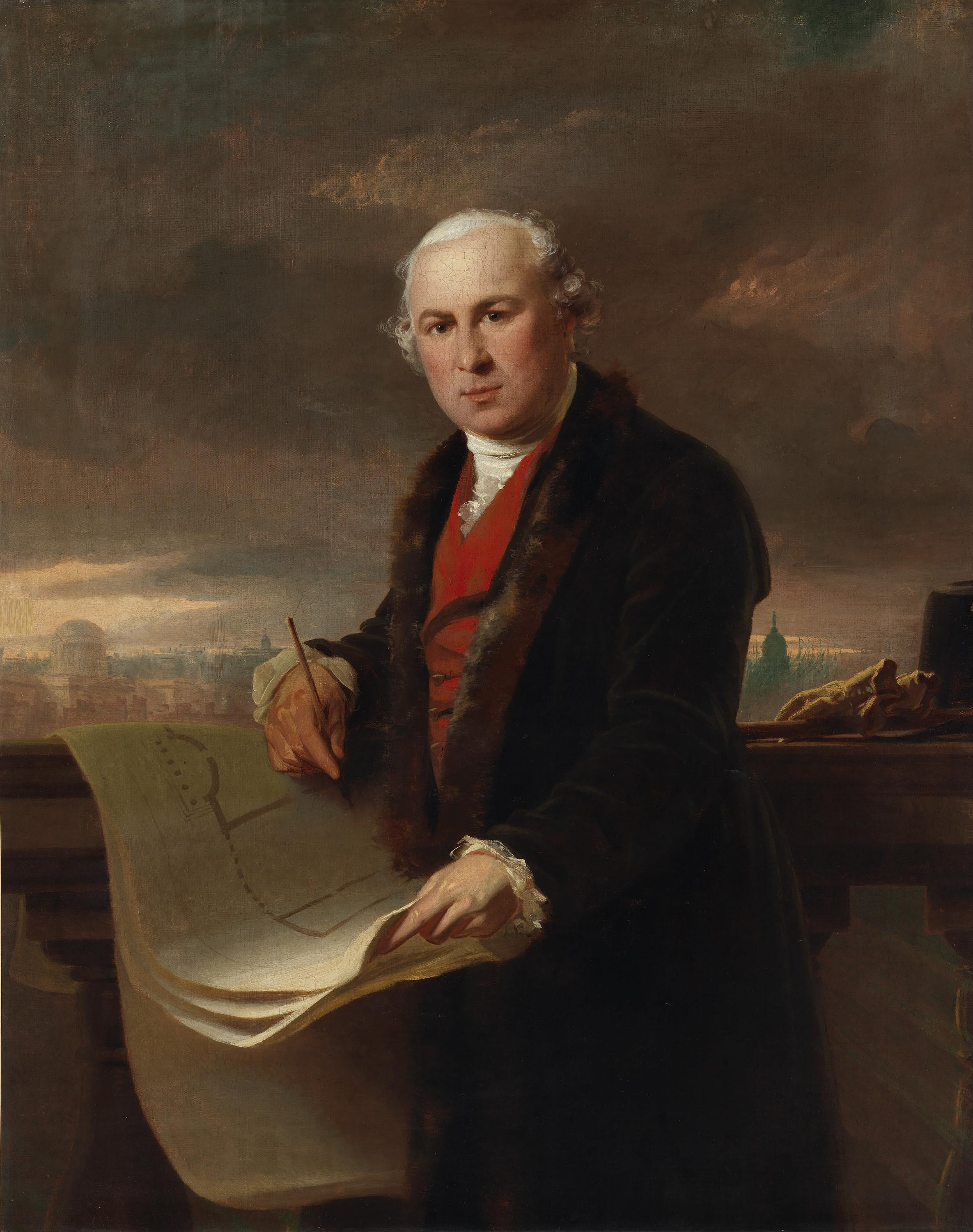 James Gandon (1743–1823) architect whose works in Ireland include The Custom House, the Four Courts, King's Inns in Dublin and Emo Court. Tilly Kettle, an English artist visiting Ireland in 1783, painted Gandon’s face in this large portrait, but the rest of the picture was completed by William Cuming, an accomplished Irish portrait painter. In the picture, Gandon, the English architect, appears on the roof of the Parliament House (now the Bank of Ireland) in College Green, Dublin, holding architectural plans, including those for the Four Courts. In the background, a number of Gandon’s designs are visible in the Dublin skyline, including the lantern of the Rotunda Hospital, the Custom House and the Four Courts themselves. Gandon also played a part in the design of the Parliament House.